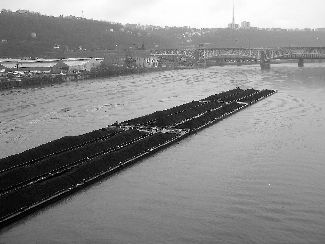 (Monogahela River; Pittsburgh, PA; USA)